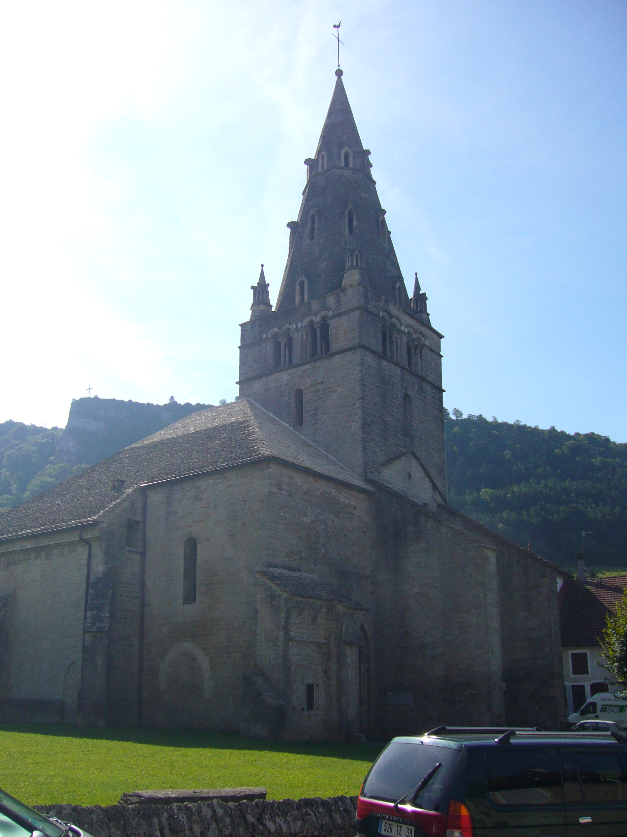 Church Mouthier-le-Vieillard, Poligny, Jura, France Eglise Mouthier-le-Vieillard, Poligny, Jura, France